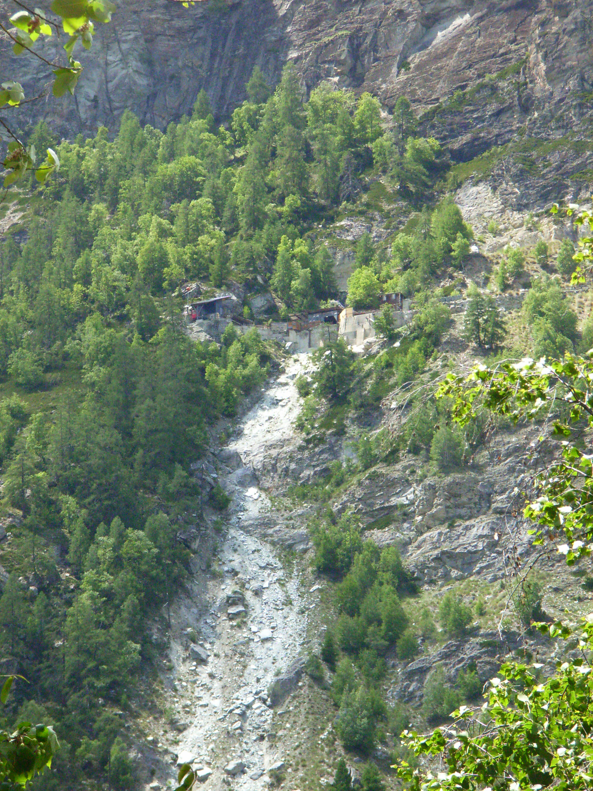 excavation of quartzite near Embd right of the Embd Creek (district of Visp, canton of Valais, Switzerland)